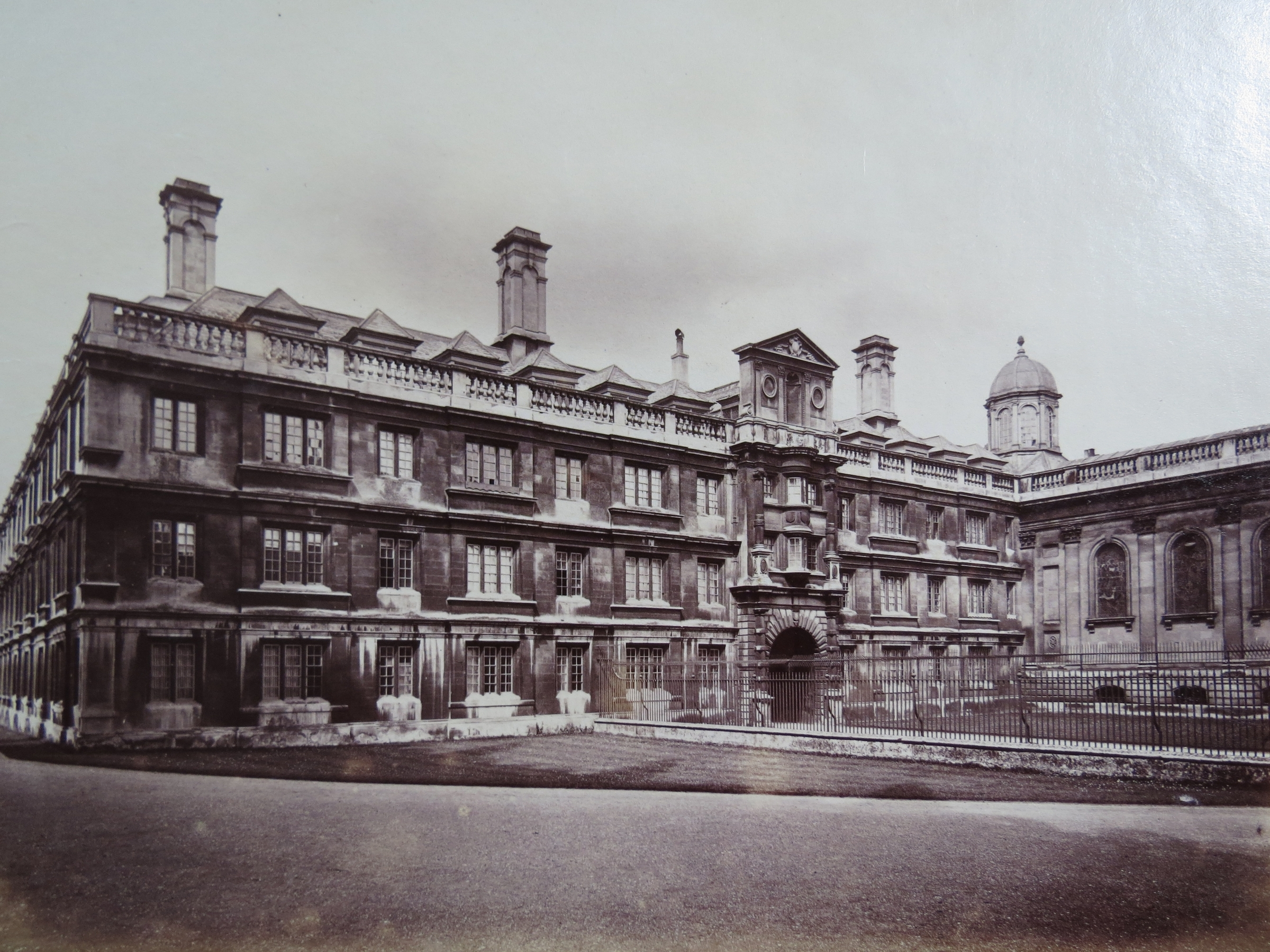 Clare College, Cambridge University. Image taken from original albumen print from a bound album of 58 Cambridge University photographs. Original 19th century album in the possession of Kimberly Blaker, New Boston Fine and Rare Books.